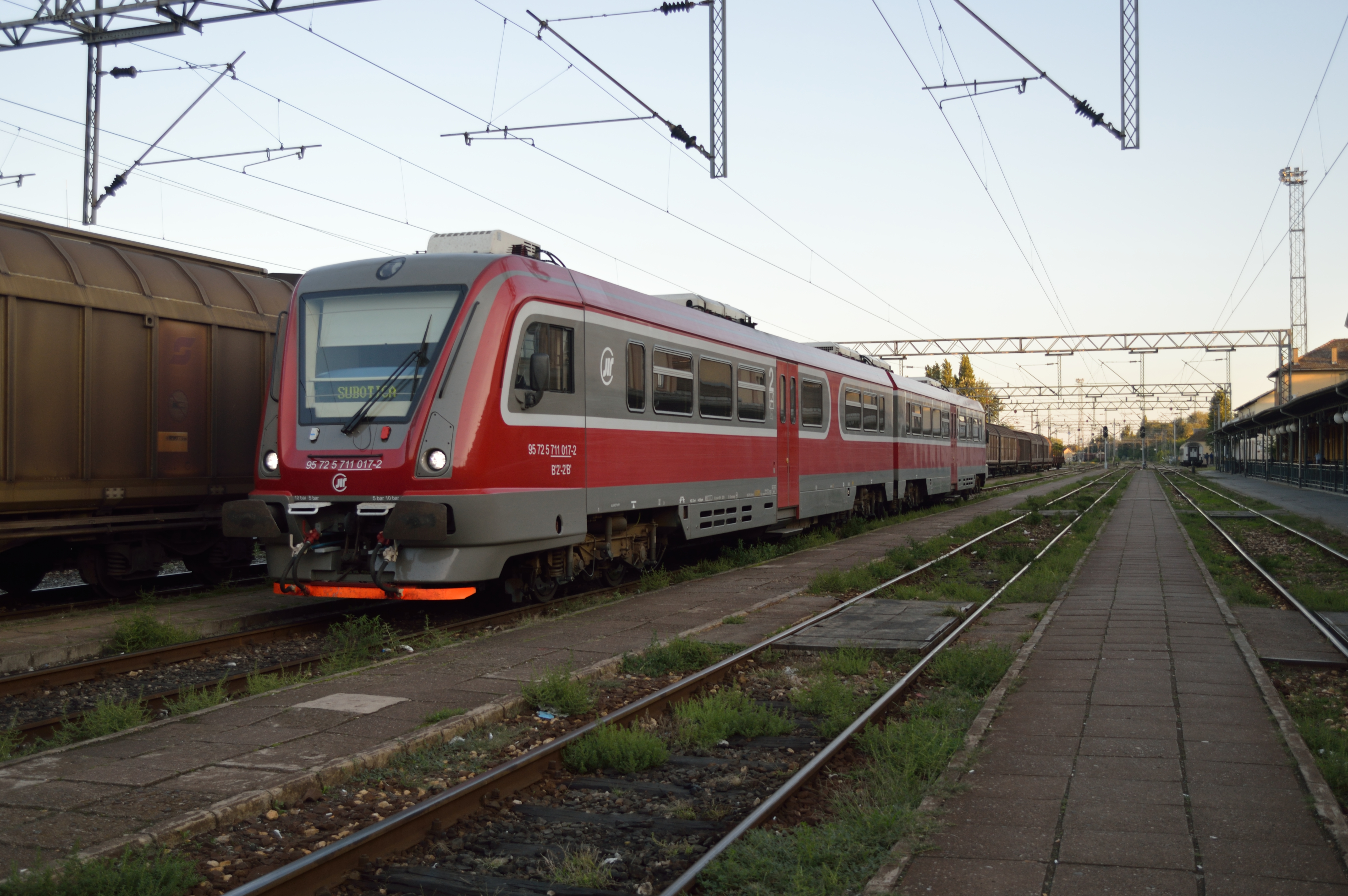 Balkans Rail Trip, Autumn 2013 - Day Two 711.017 at the end of its journey on 24 September 2013 on train 7487, 16:21 Kanjiža to Subotica.